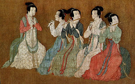 Close-up detail of the Chinese painting Night Revels, handscroll, ink and colors on silk, 28.7 x 335.5 cm.